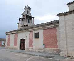 iglesia morales.jpg